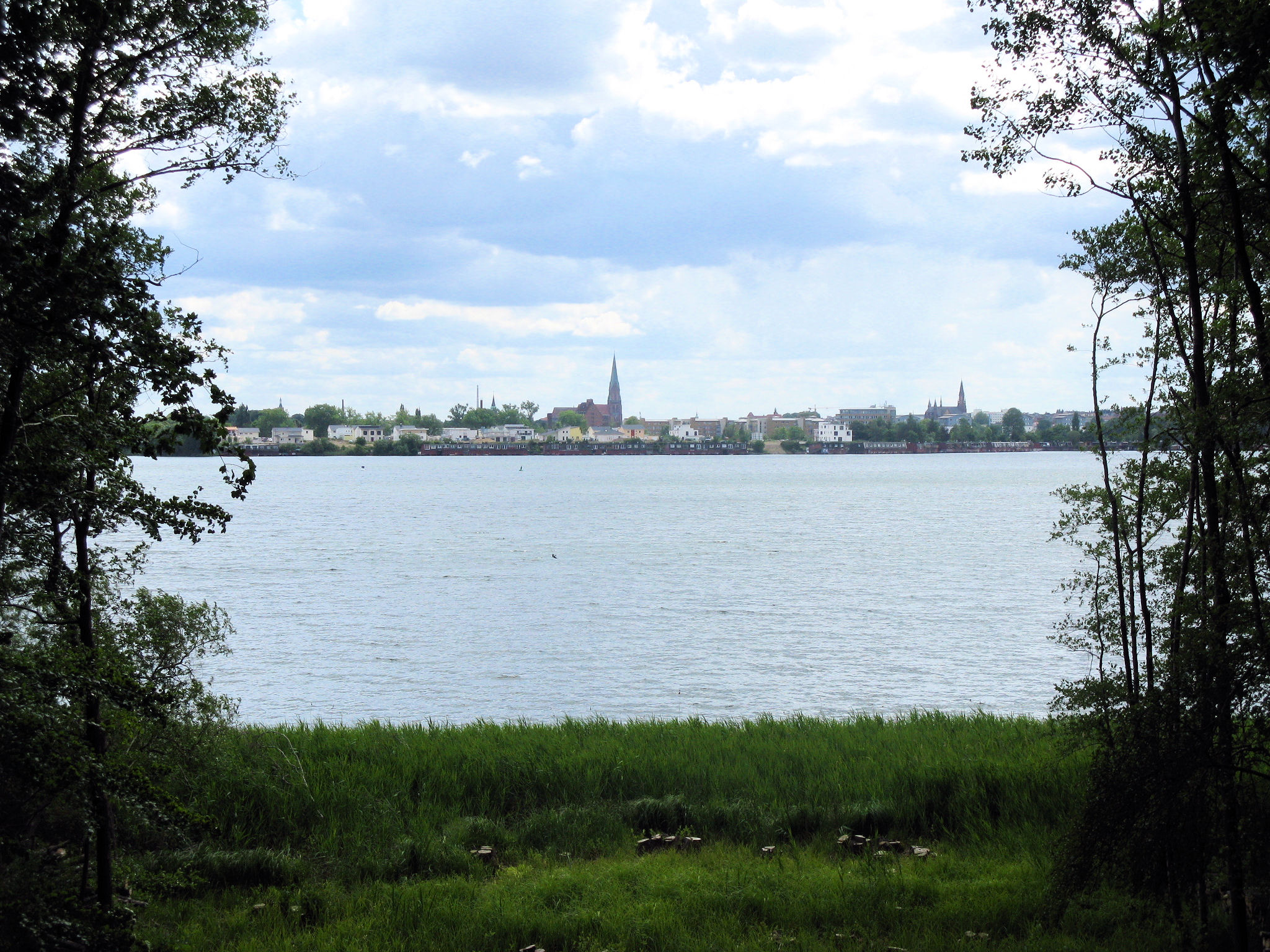 View from Schelfwerder to the Ziegelsee in Schwerin, Mecklenburg-Vorpommern, Germany